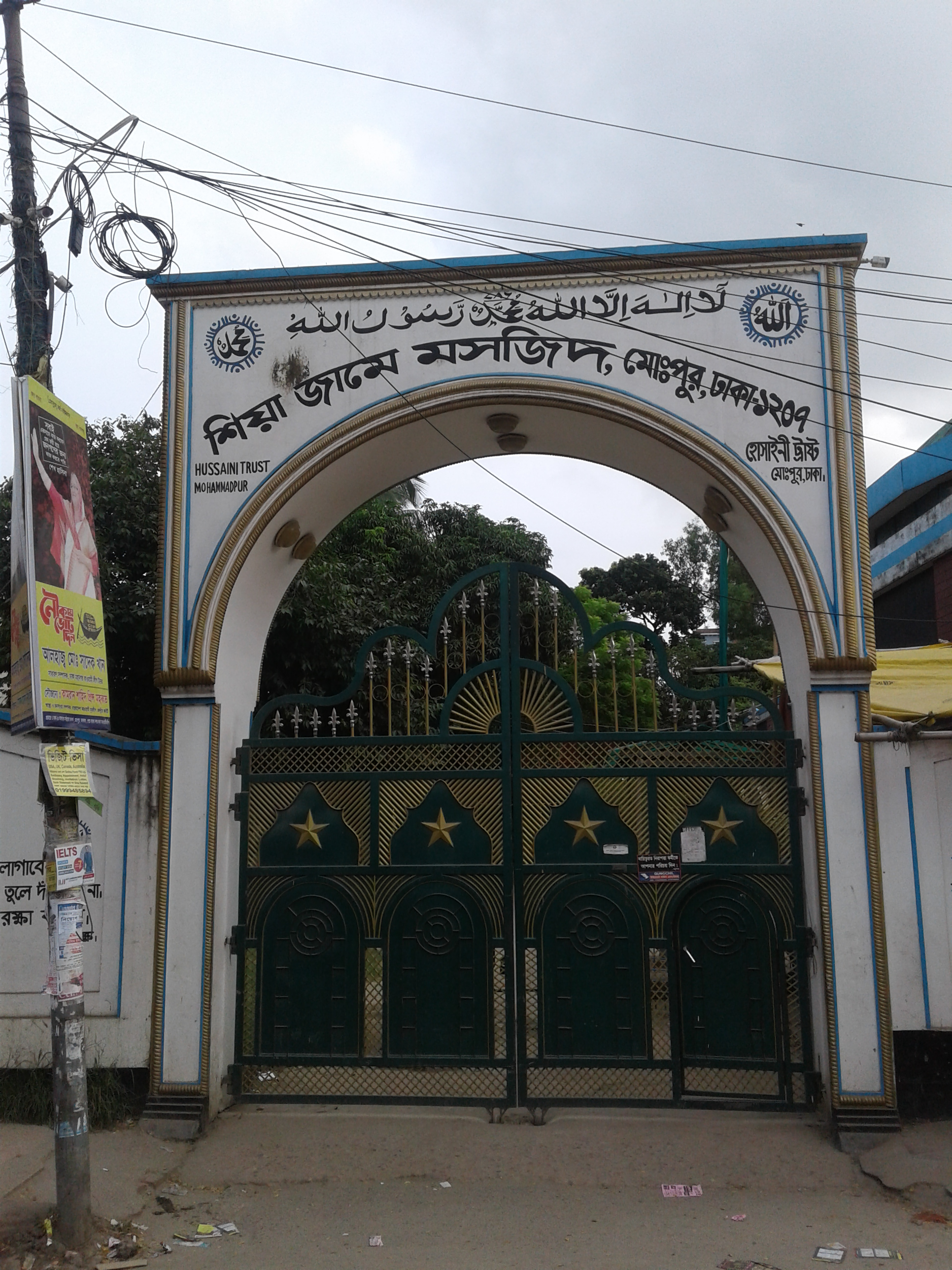 Shia Jame Masjid, Mohammadpur